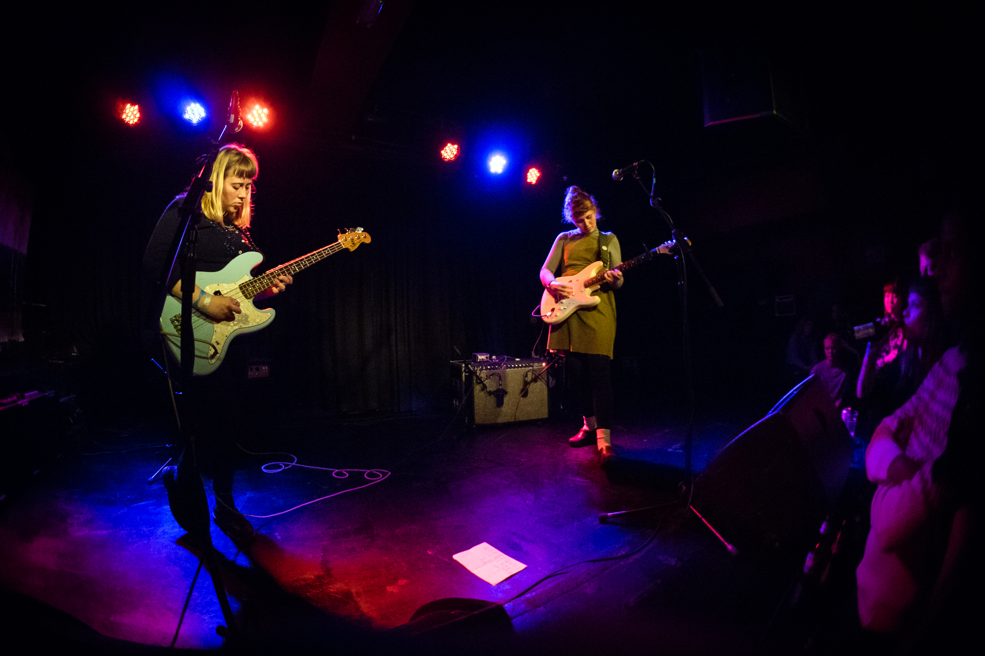 Girlpool at the Lexington